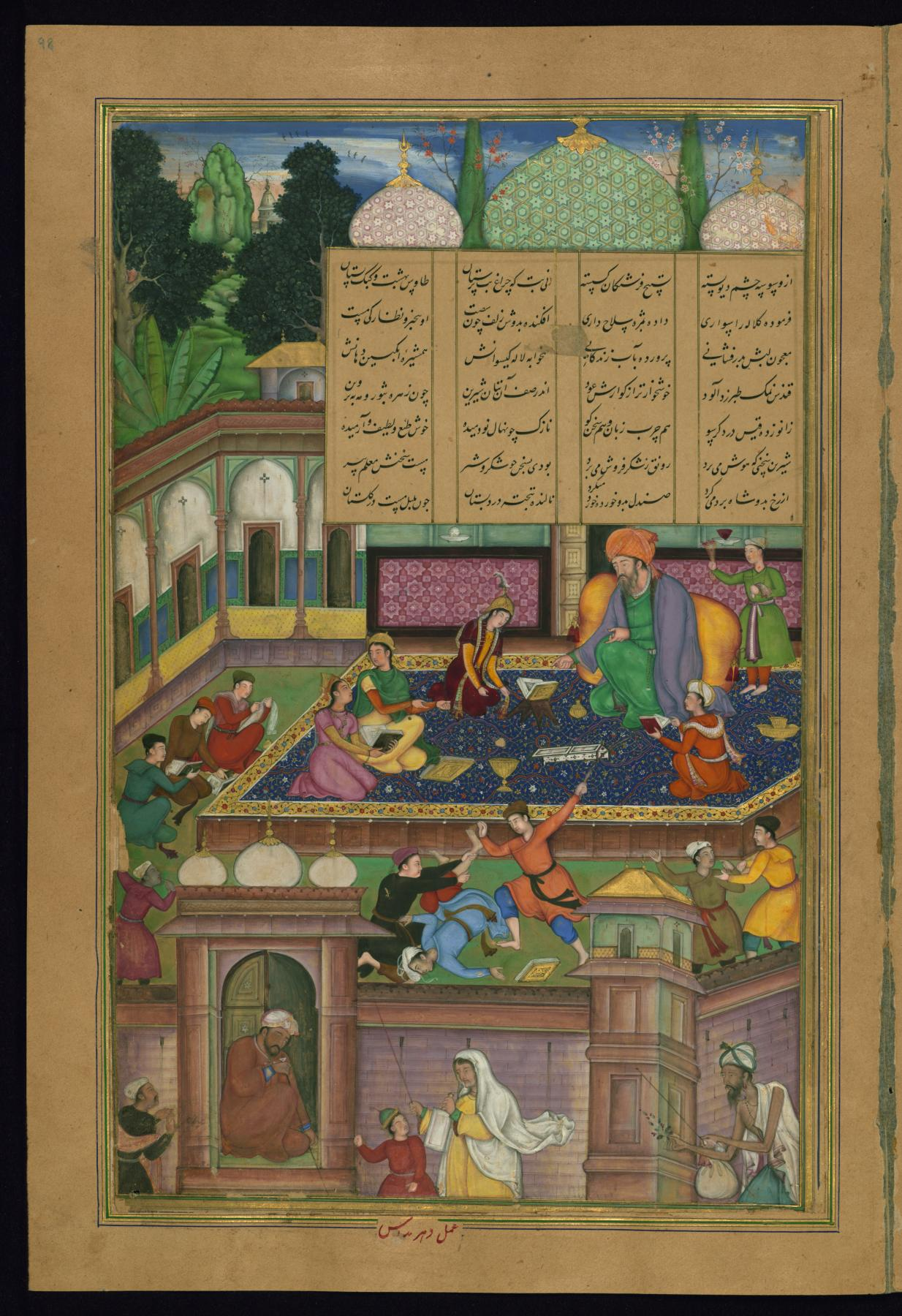 On this folio from Walters manuscript W.624, Laylá and Majnun, the ill-fated lovers, are depicted at school as youths. 'Amal-i Dharamdas is inscribed in the border.